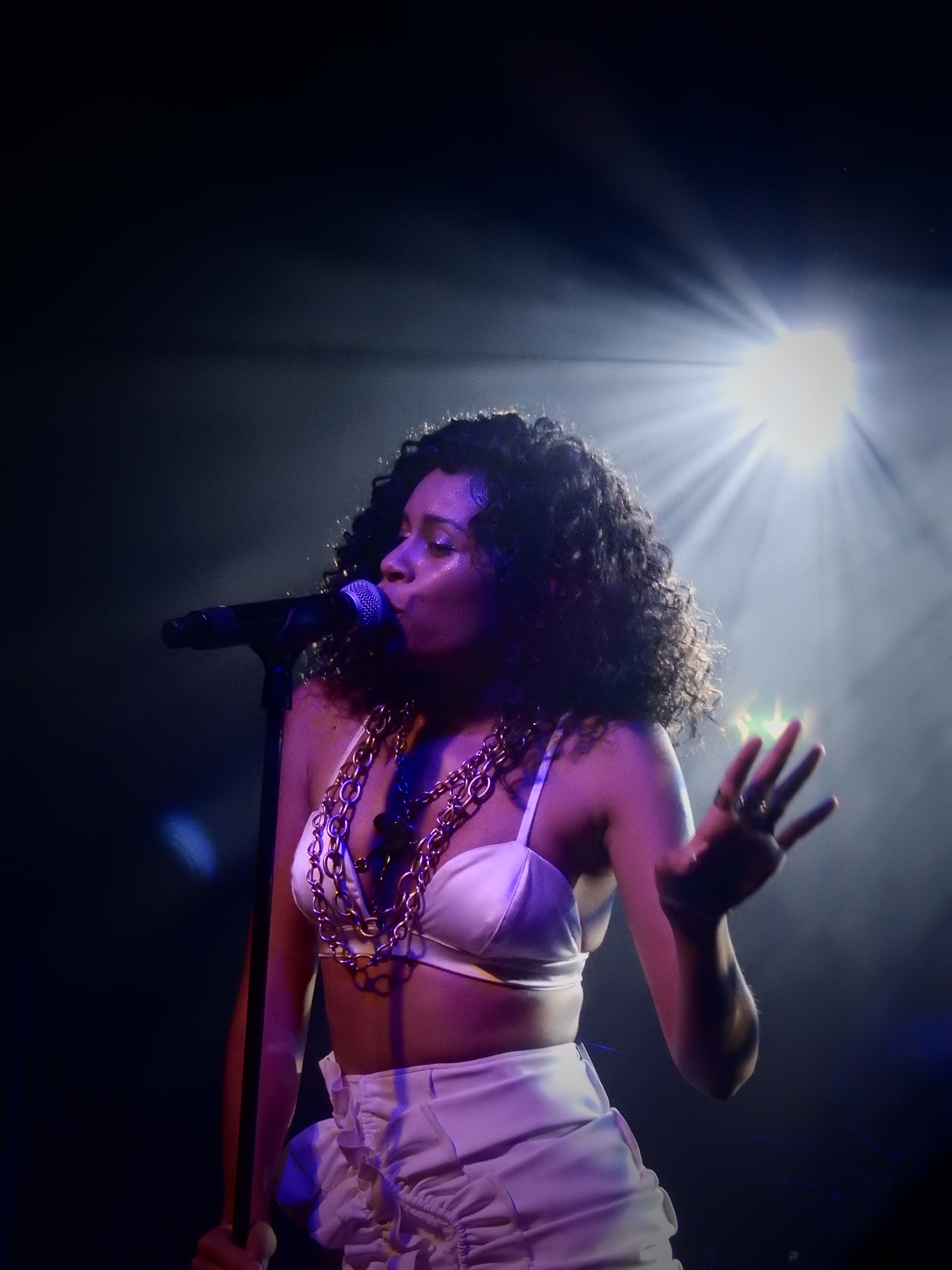 Aluna Francis of AlunaGeorge performing in the Scala nightclub in London